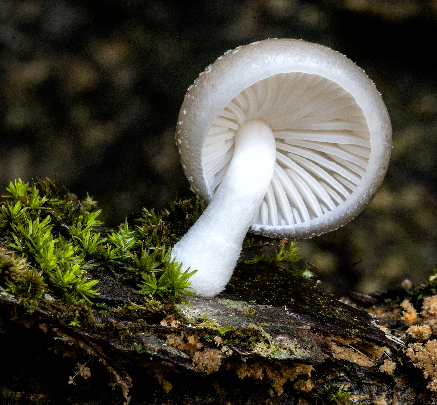 Oudemansiella canarii (Jungh.) Höhn. Image location: Yarrahapinni State Forest, North of Grassy Head, New South Wales, Australia Small sticky cap fungi on wood. Area Eucalyptus rainforest. Recognized by sight For more information about this, see the observation page at Mushroom Observer.